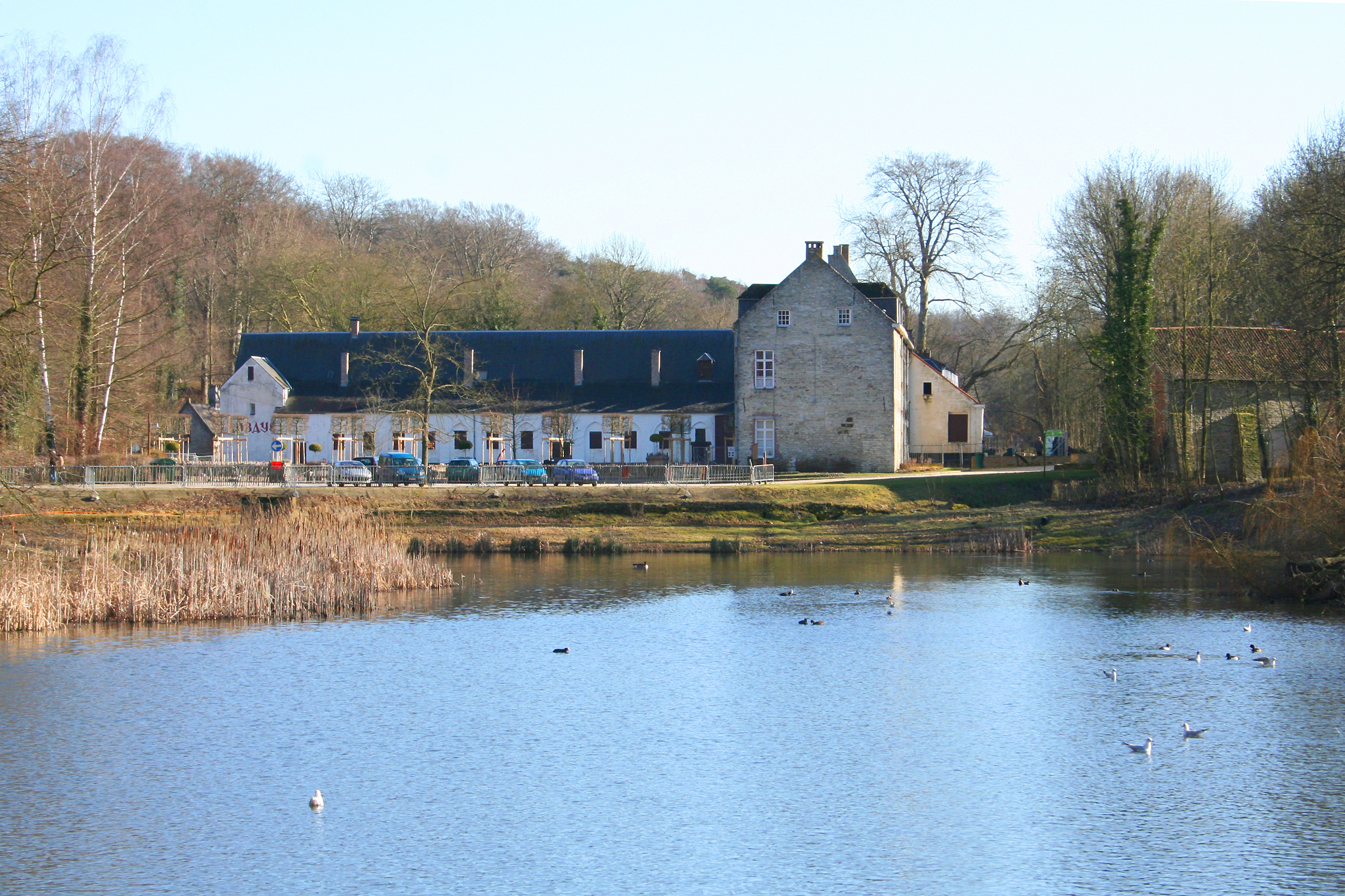 Auderghem (Belgium), the pond "Étang Long" and the buildings of the Rouge-Cloître (Red Cloister) Abbey founded in the XIVth century by the hermit Egide Olivier and the canon Guillaume Daniels.